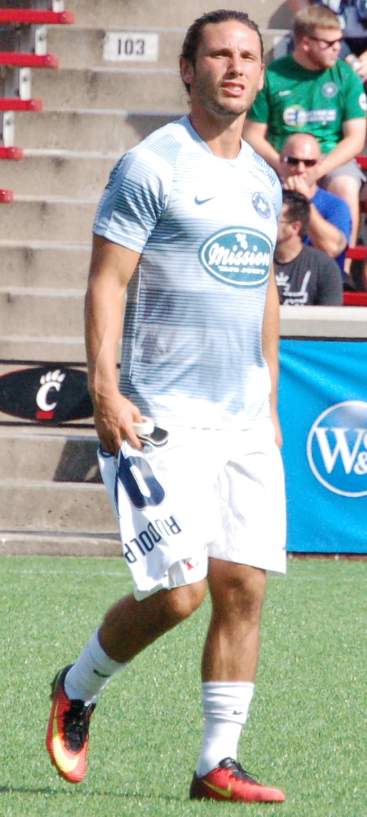 Seth Rudolph Taken during a USL regular season match between FC Cincinnati and Saint Louis FC at Nippert Stadium in Cincinnati, USA on September 5, 2016.